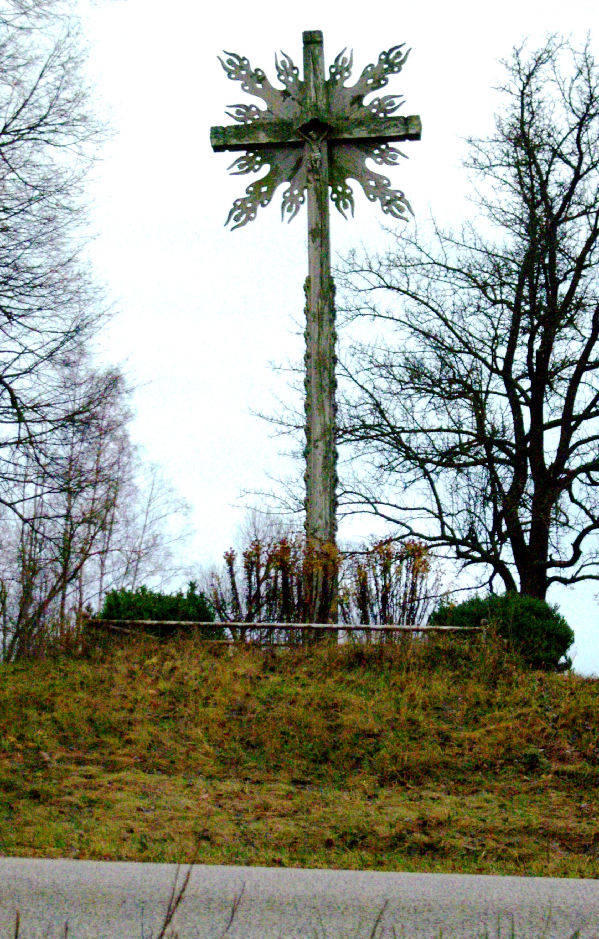 A wooden cross in poet Aistis' native village near Dovainonys, Lithuania